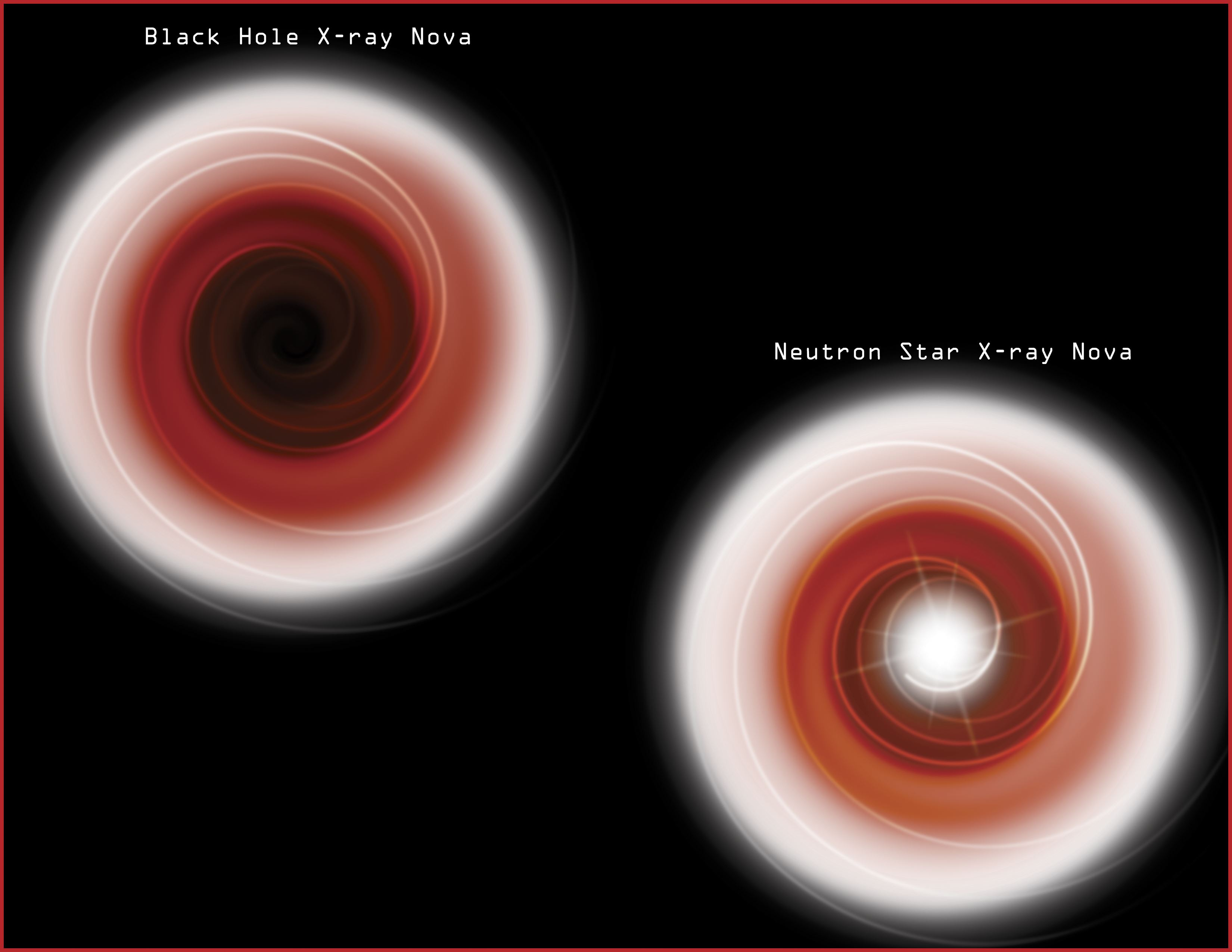 Top: This illustration shows gas from the companion star is drawn by gravity onto the black hole in a swirling pattern. As the gas nears the event horizon, a strong gravitational redshift makes it appear redder and dimmer. When the gas finally crosses the event horizon, it disappears from view. Because a black hole has no surface, the central region is black. Bottom: As above, gas from the companion star flows down onto the collapsed star--in this case a neutron star instead of a black hole. As the gas approaches the neutron star, a similar gravitational redshift makes the gas appear redder and dimmer. However, when the gas strikes the solid surface of the neutron star, it glows brightly.